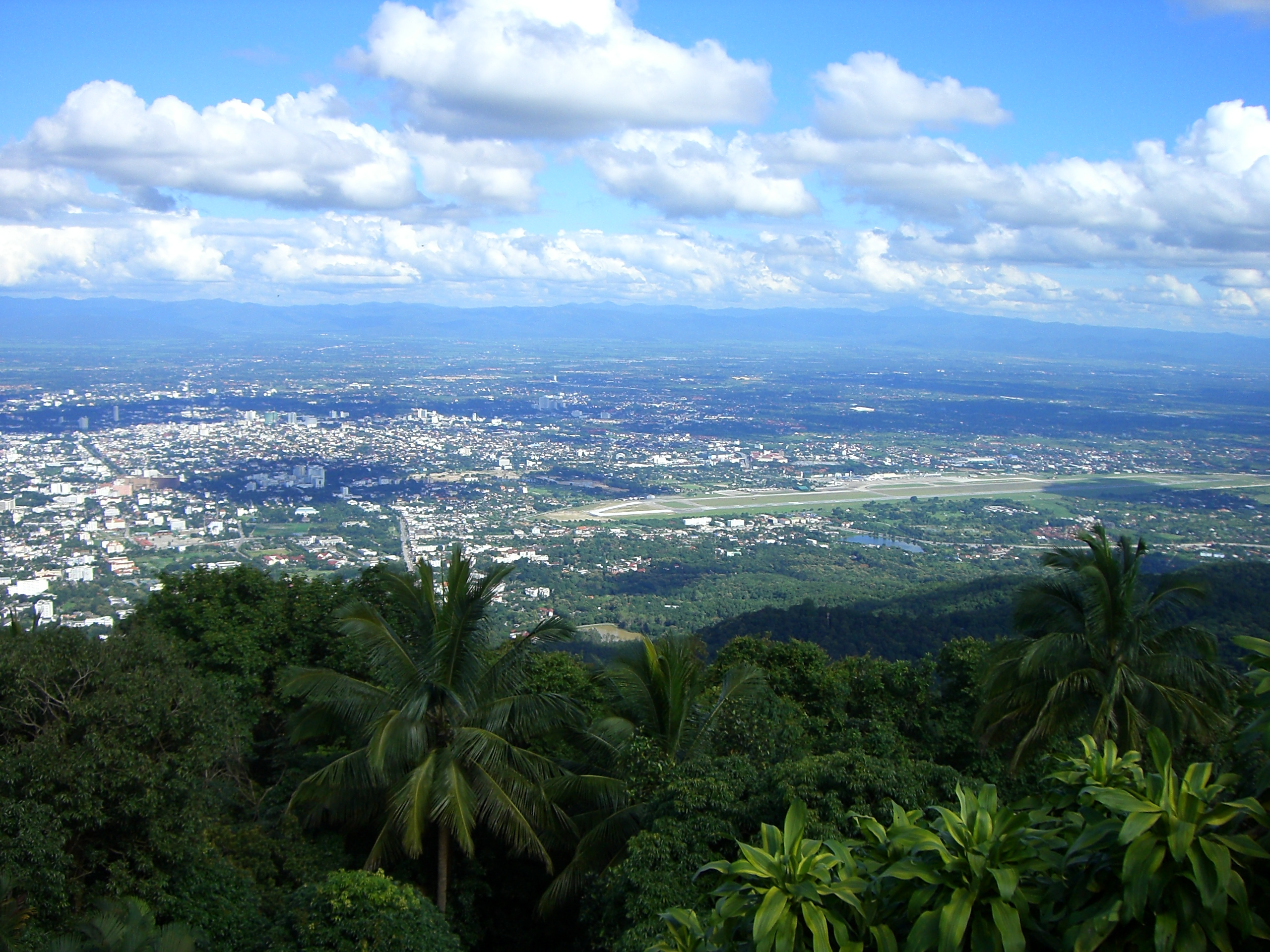 View from Doi Suthep mountain over Chiang Mai city, northern Thailand